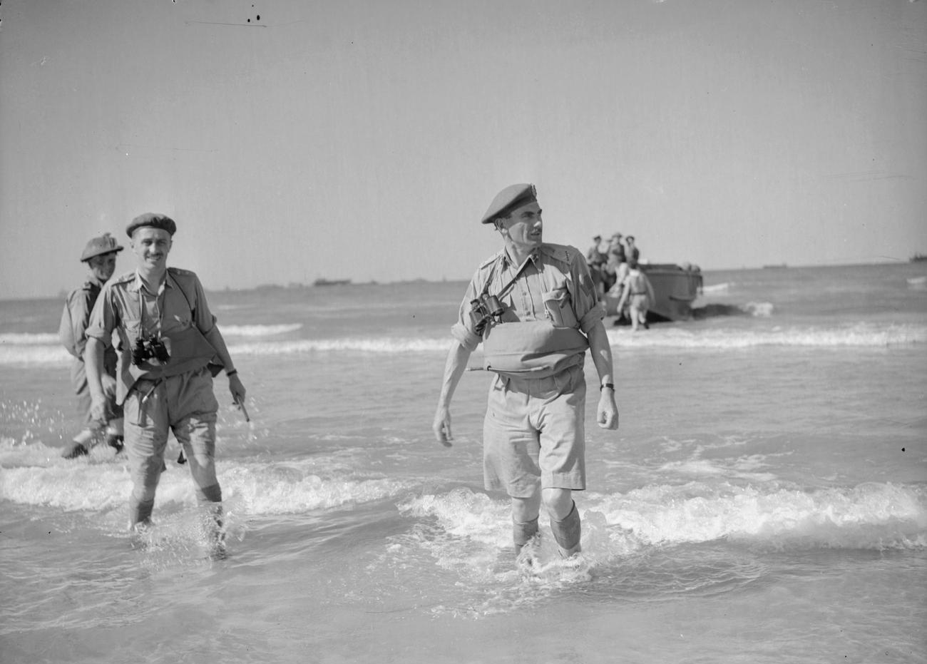 The Campaign in Sicily 1943 Personalities: The Commander of the 1st Canadian Division, Major General G G Simonds, wading ashore from a landing craft.